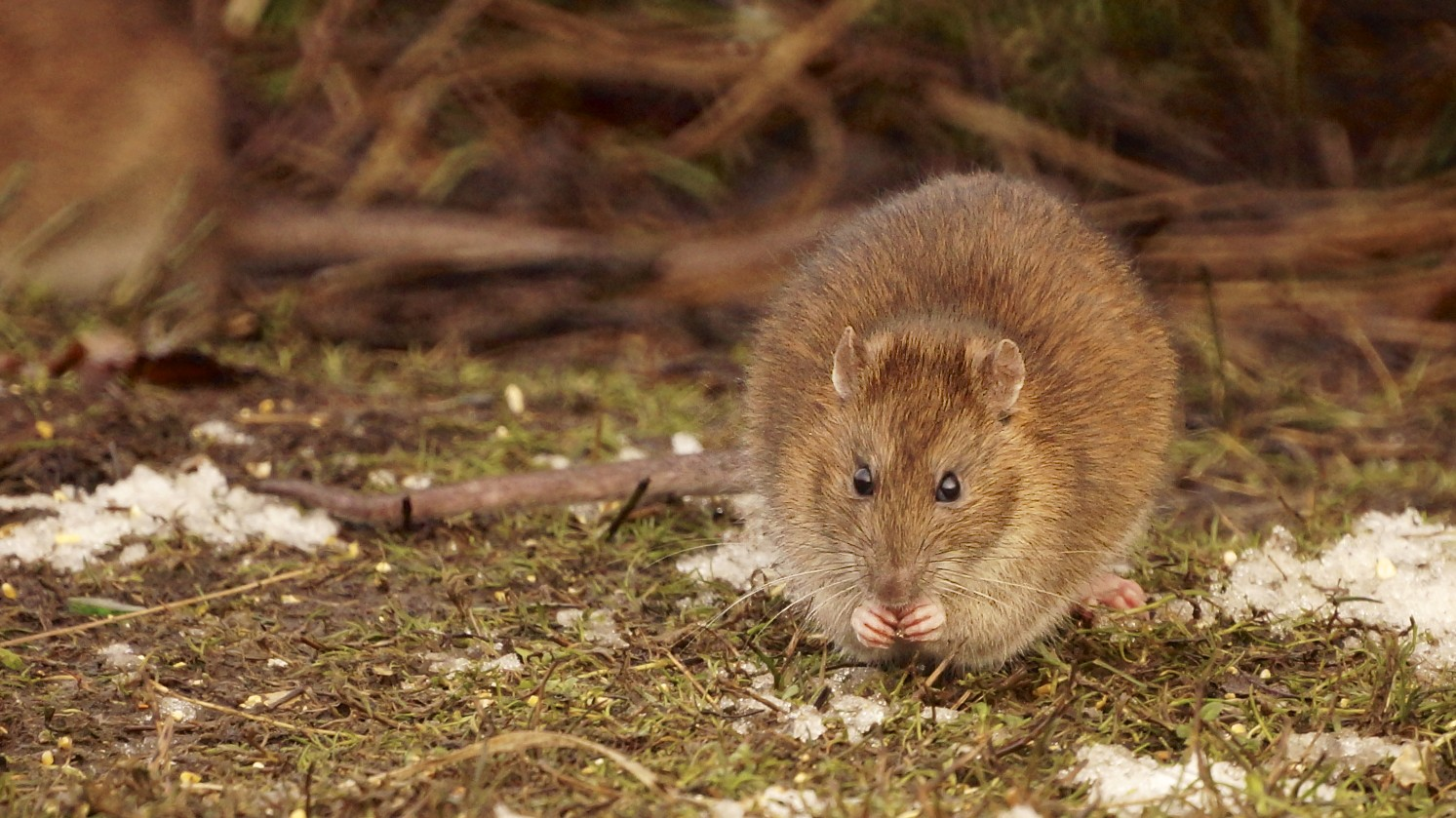 Of course when you feed the ducks there is always someone else ready to clean up the scraps - a rat at Hatchpond Local Nature Reserve, Poole, Dorset.